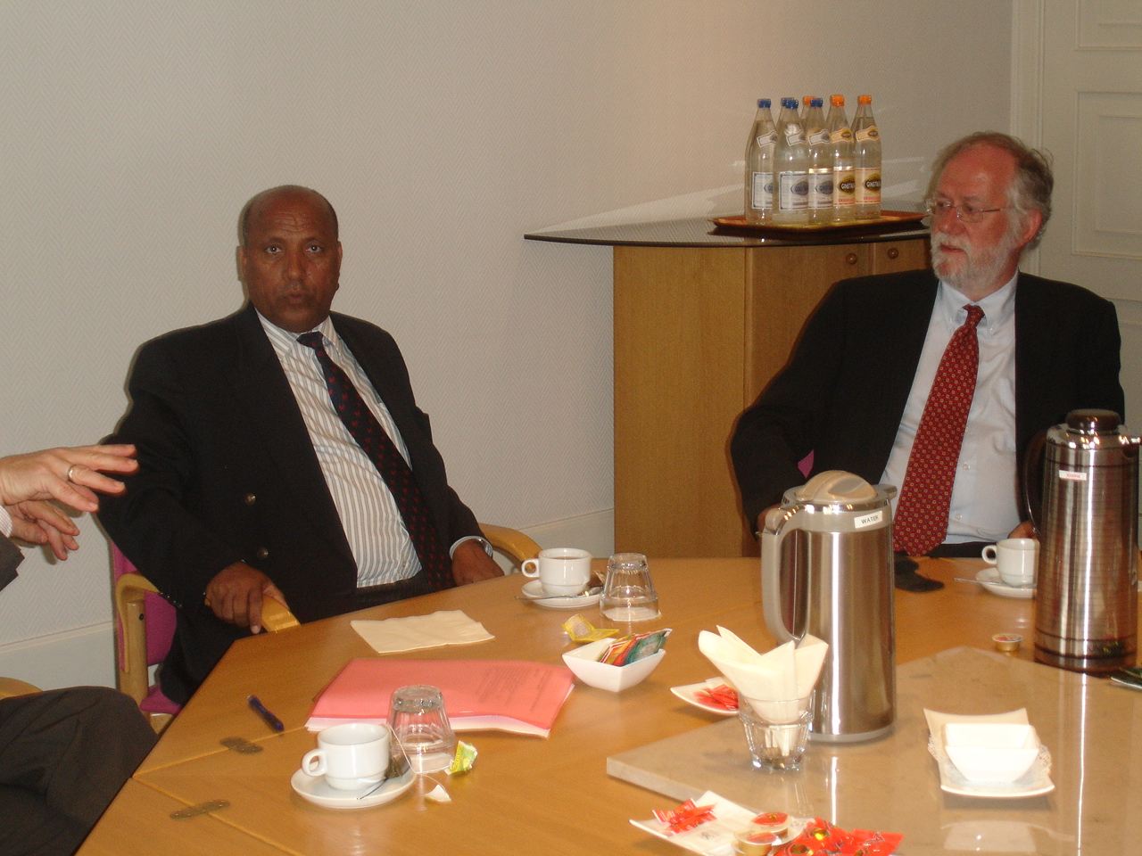 Mitiku Haile meeting with PVC